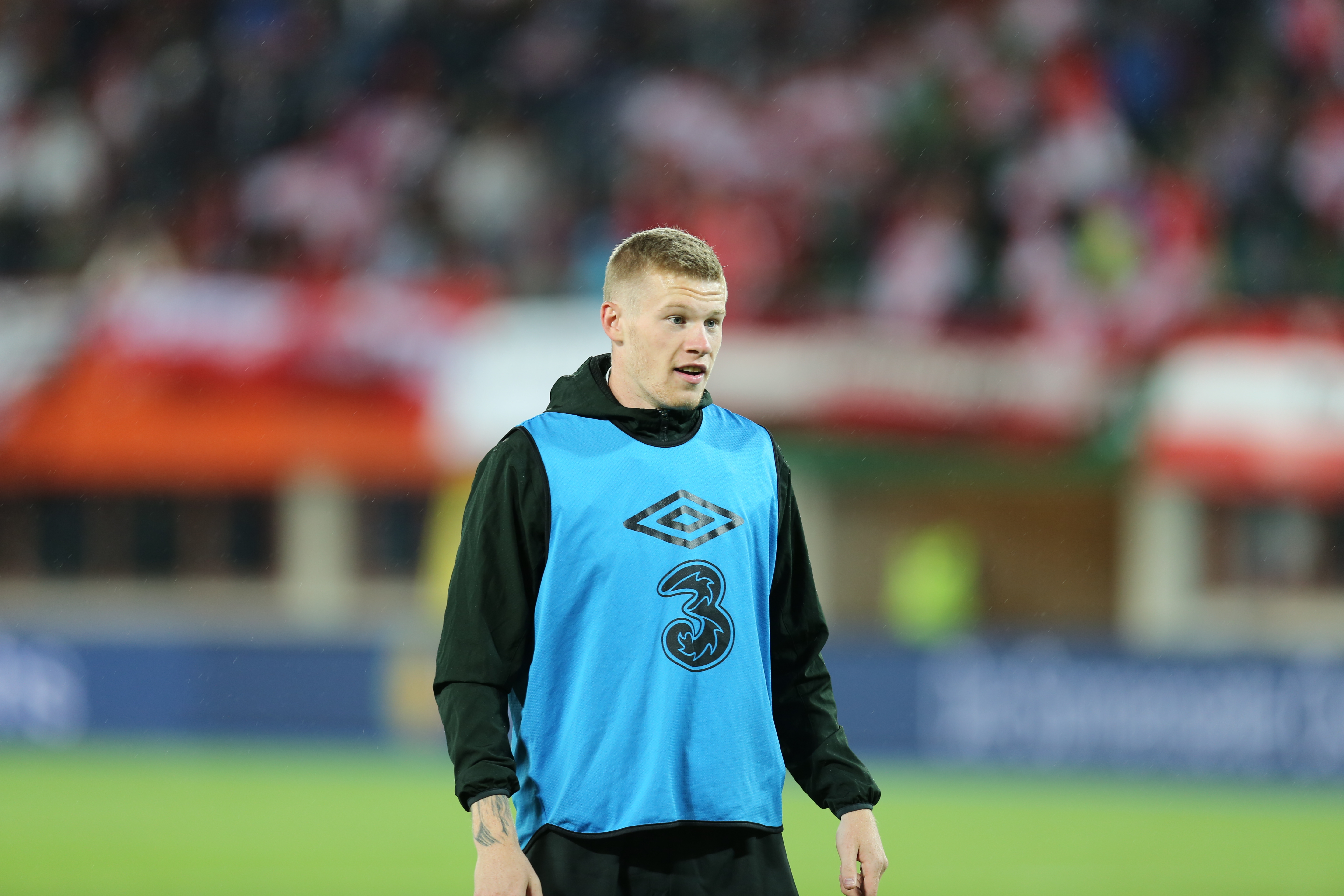 2014 FIFA World Cup qualification (UEFA), Group C: Republic of Ireland national football team at 10. September 2013 before the match against the Austria national football team (0:1) in the Ernst-Happel-Stadion in Vienna. Here:James McClean, Irish winger. The making of this work was supported by Wikimedia Austria. For other files made with the support of Wikimedia Austria, please see the category Supported by Wikimedia Österreich.